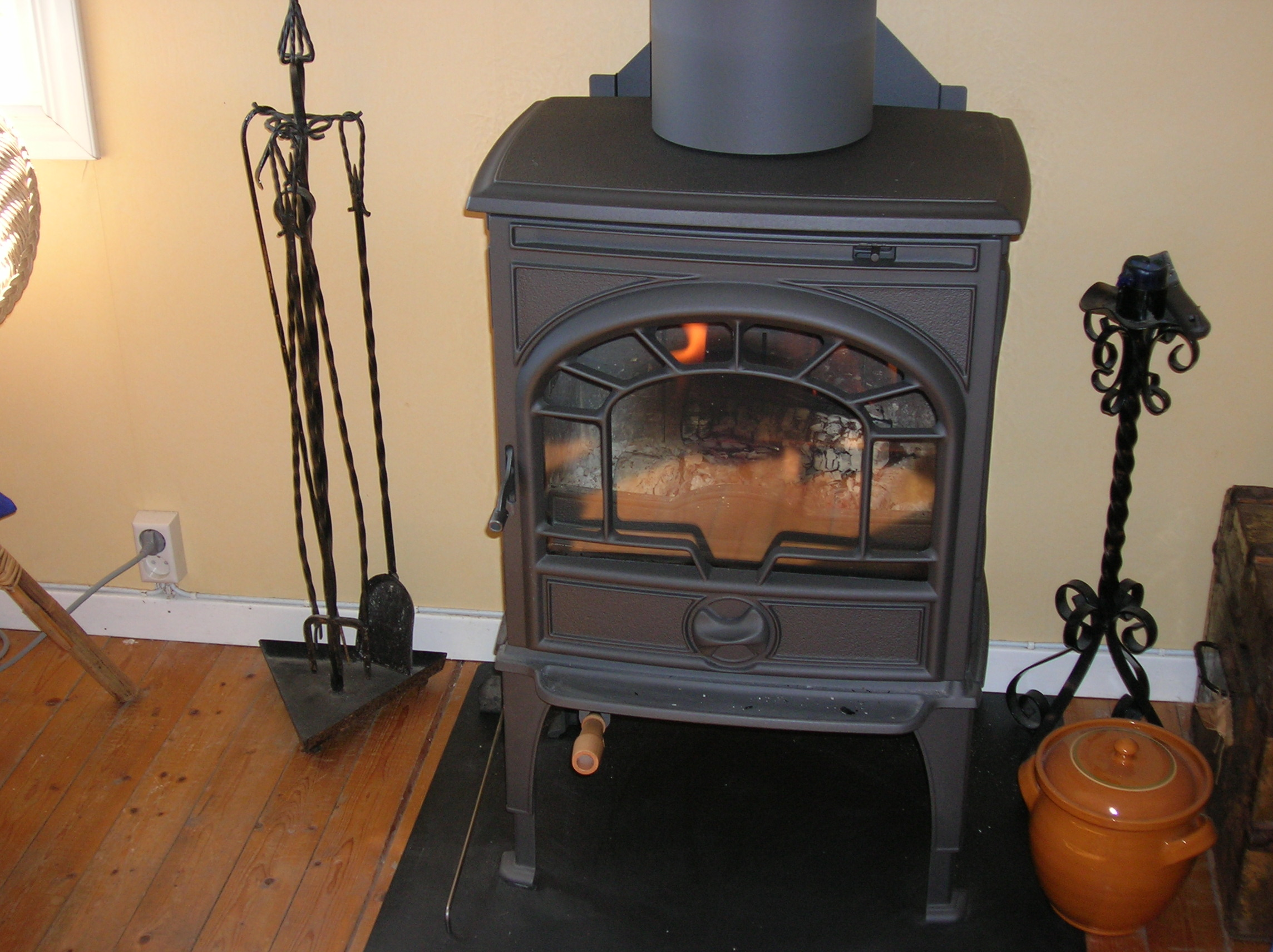 A wood stove